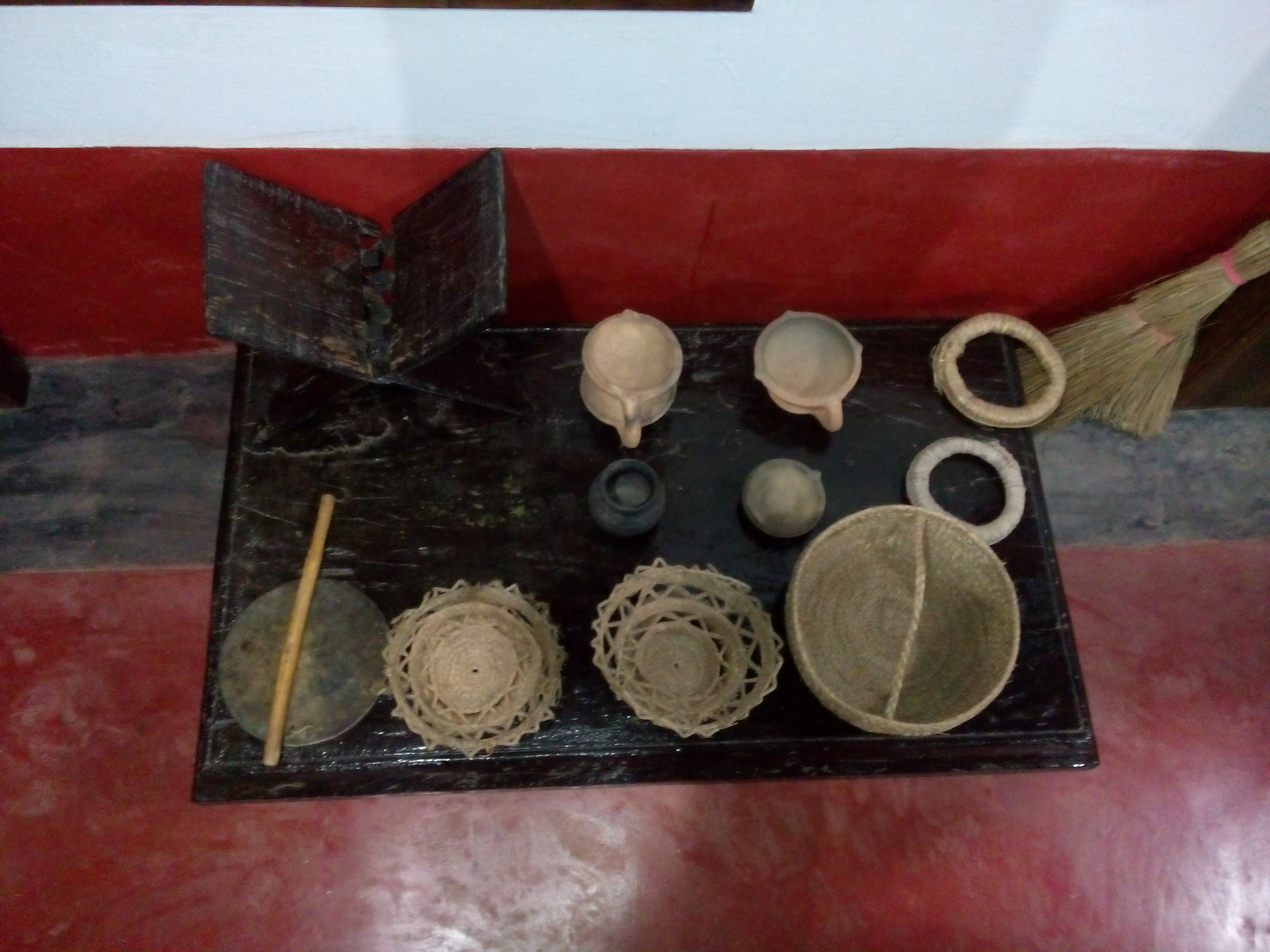 all hand made domestic items